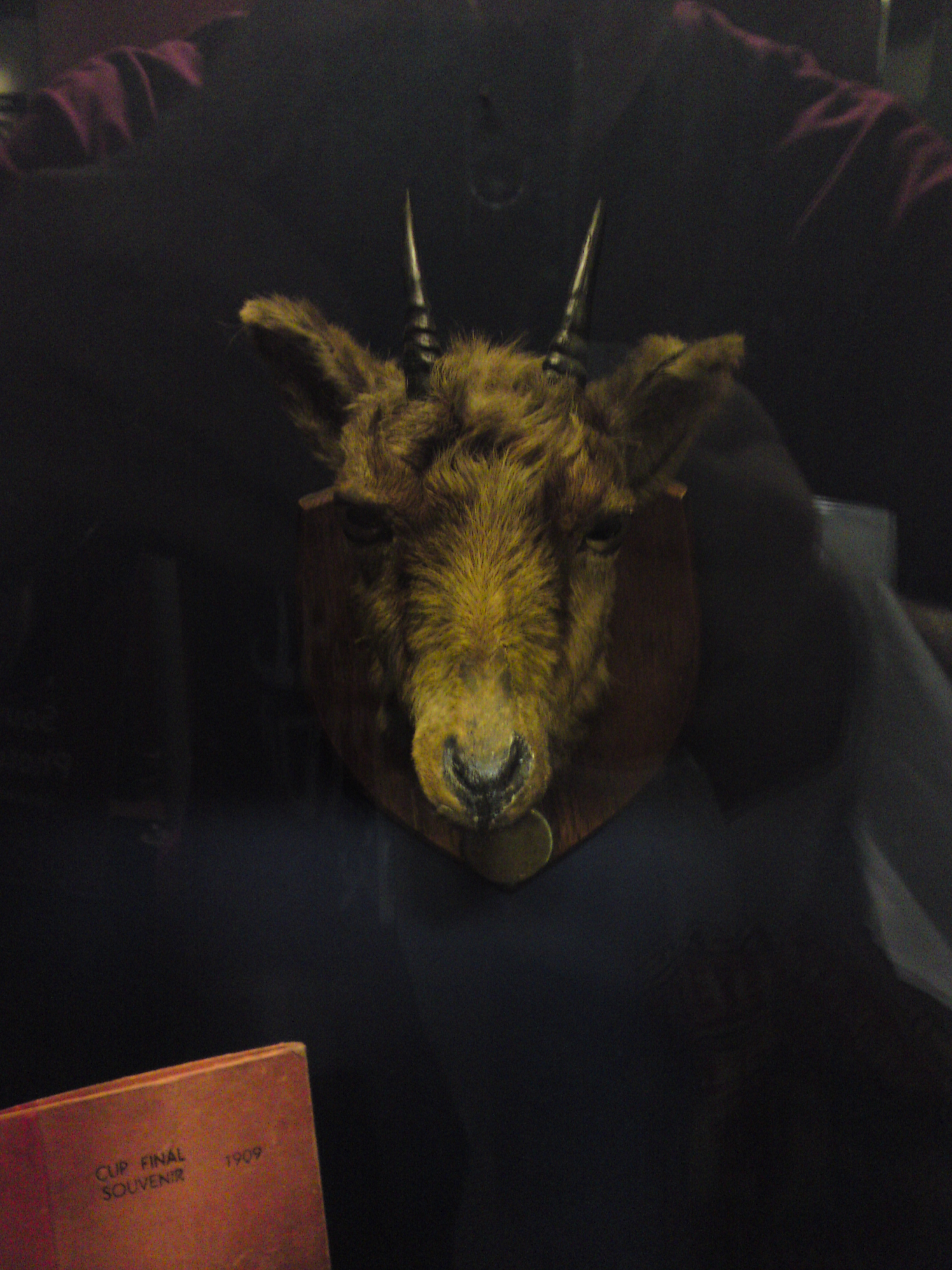 The preserved head of Billy the Goat, the mascot of Manchester United Football Club from 1905 to 1909, when he died from alcohol poisoning following the club's victory in the 1909 FA Cup Final